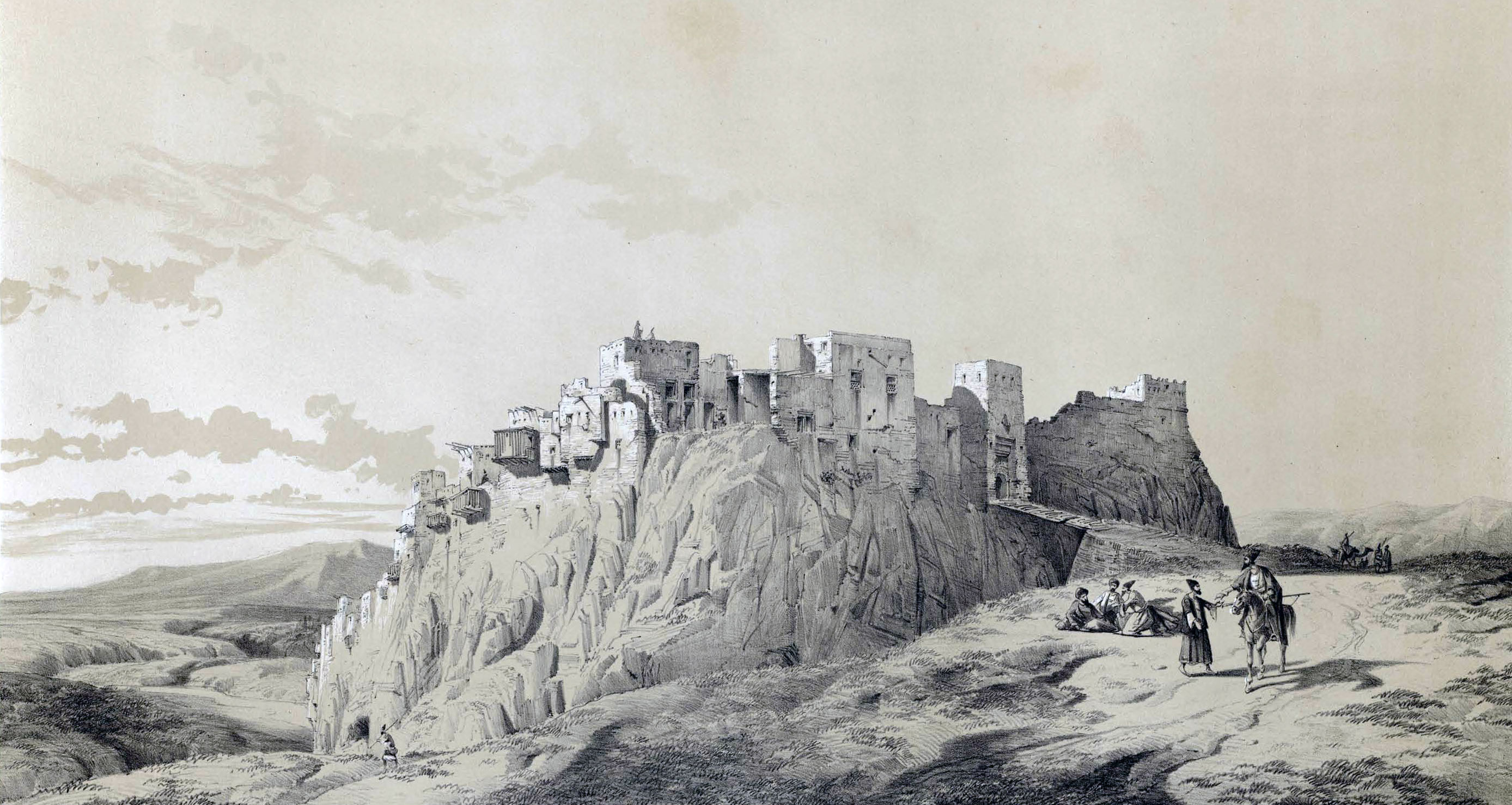 The castle of Izadkhast (or Yezd-i-Khast) in Fars Province of Iran